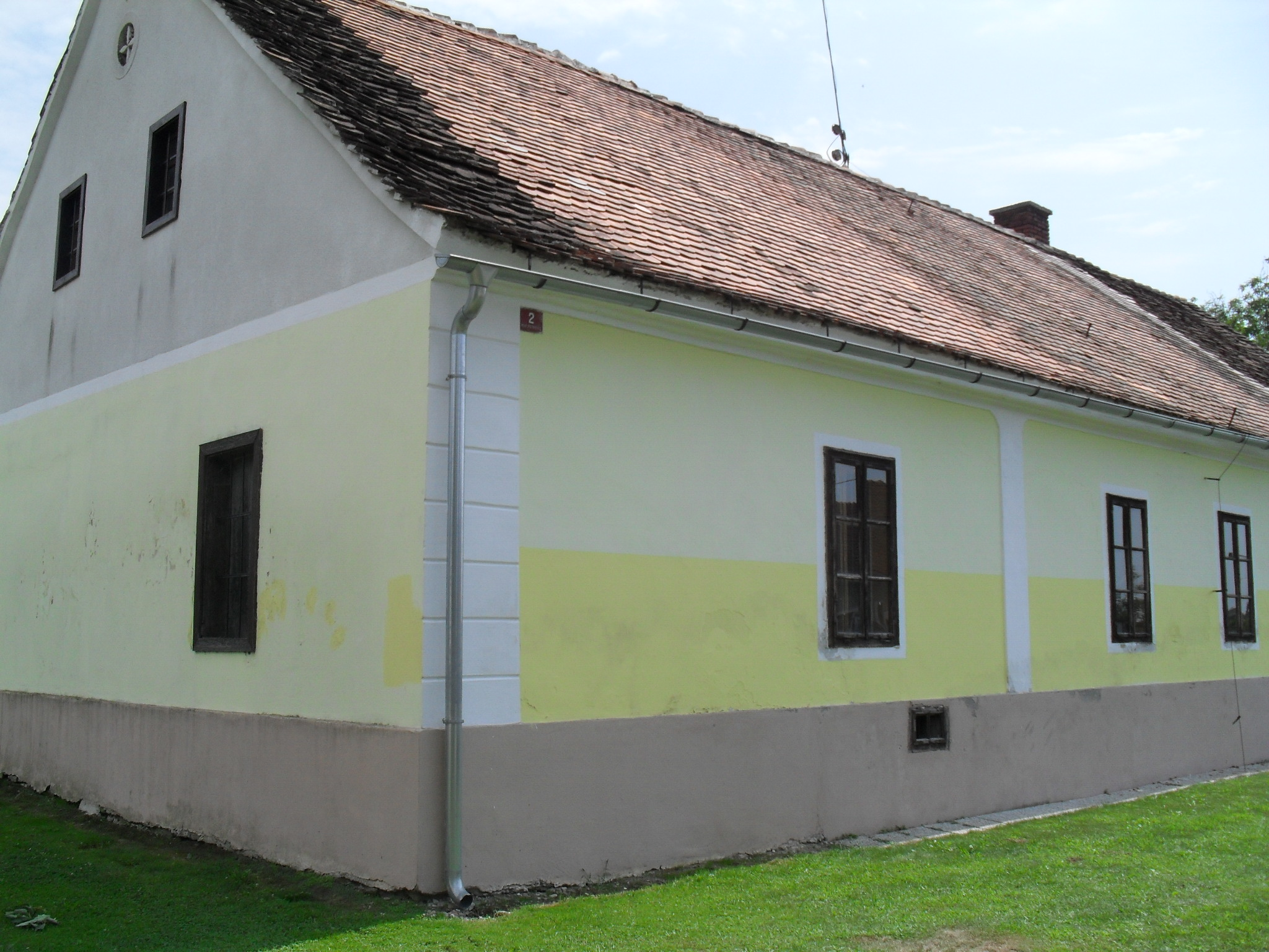 The house of the birth of Prekmurian Slovene writer, poet and journalist Imre Augustich (Imre Augustič) in Murski Petrovci. Some time was the house of mayor in Petrovci.